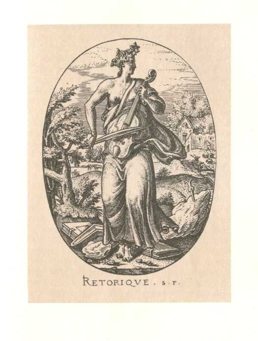 Etienne Stephanus Delaune (1518—1583?), a French painter Rhétorique Allegorical figure from the series "The basic sciences"